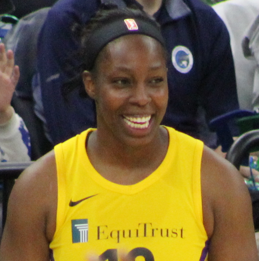 Chelsea Gray of the Los Angeles Sparks in 2018 (smiling at Lindsay Whalen)